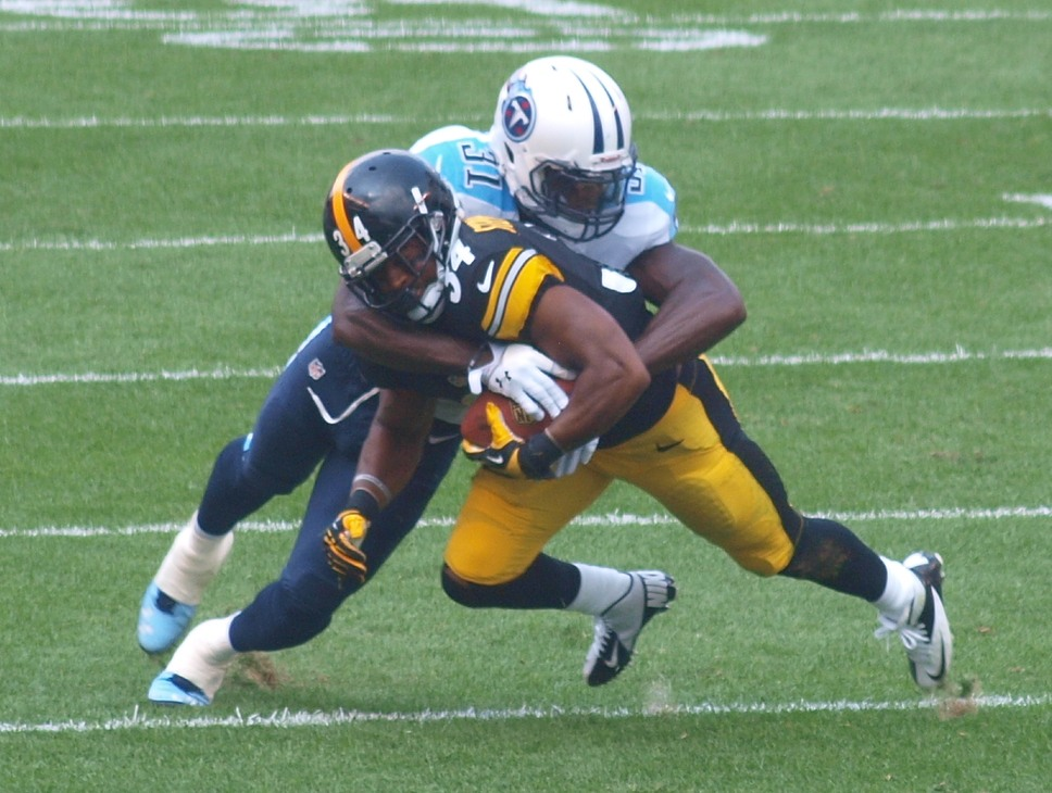 Pittsburgh Steelers running back, LaRod Stephens-Howling, being tackled by Tennessee Titans safety, Bernard Pollard.